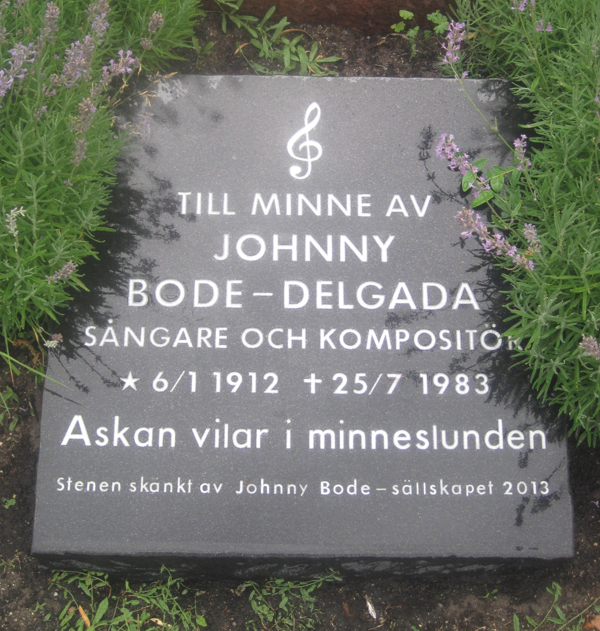 Headstone for Swedish composer and singer Johnny Bode (1912-1983) at Limhamn cemetary. The stone donated by Johnny Bode-sällskapet on the 30th anniversary of Bode's death.